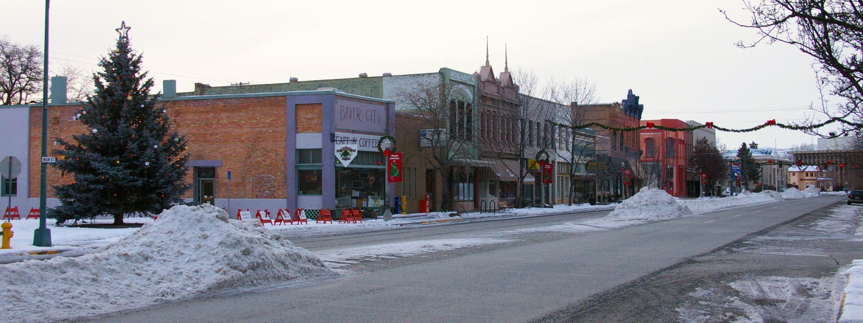 Recent large snowfall forced crews to form snow banks in the middle of streets.